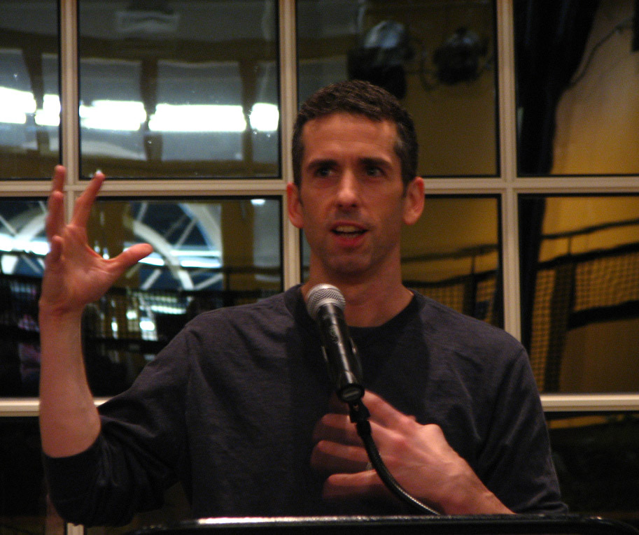 Dan Savage speaking at IWU as part of Gender Issues Week. Photo by soundfromwayout